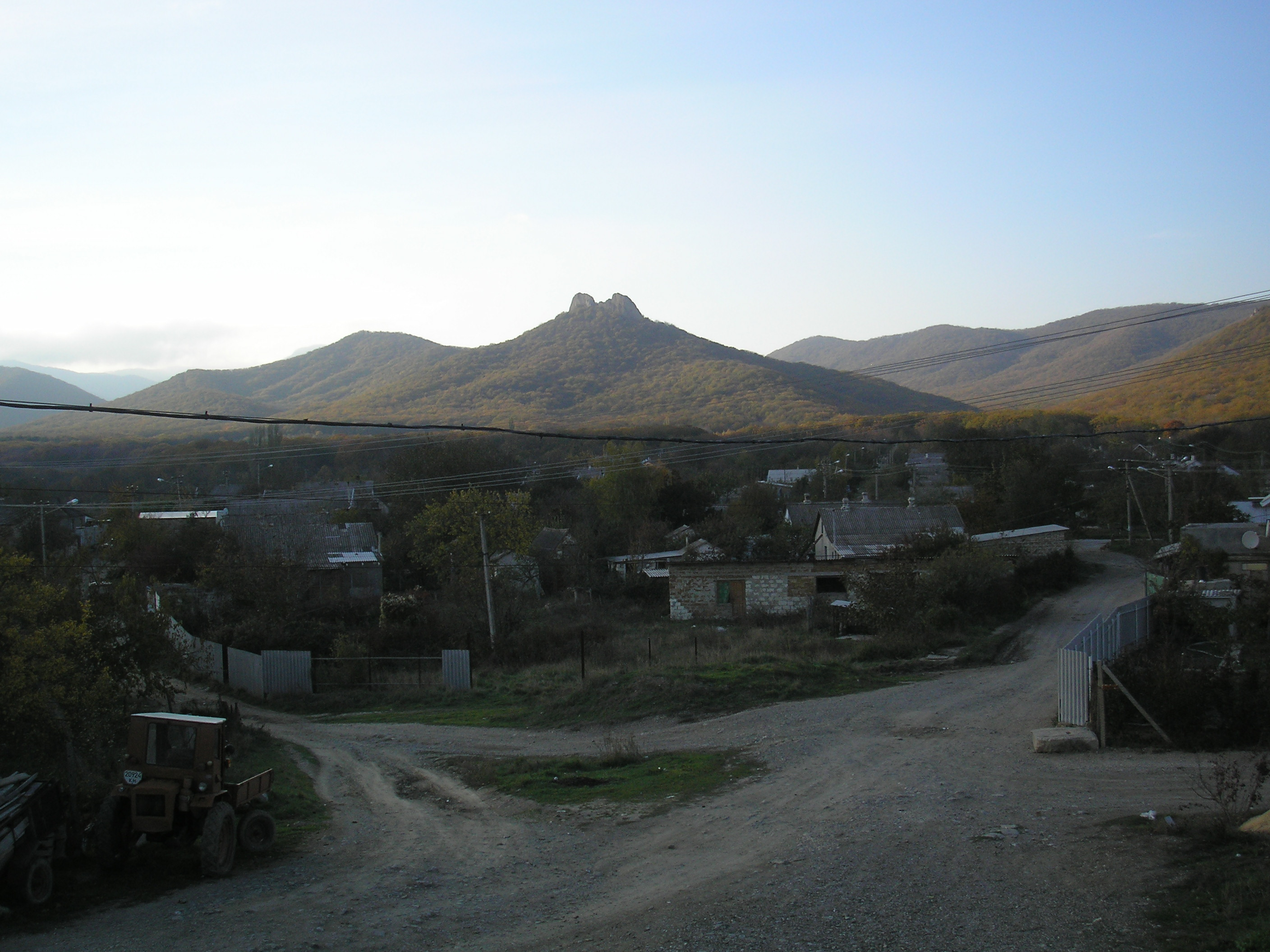 Village Lesnoe, Urban District Sudak Republic of Crimea